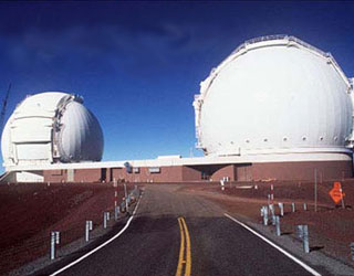 The W. M. Keck Observatory.